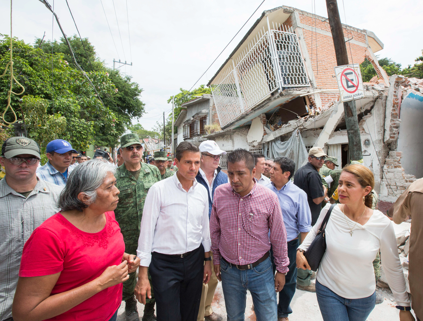 El Presidente Enrique Peña Nieto visitó Jojutla, Morelos, uno de los municipios más afectados tras el sismo del 19 de septiembre.